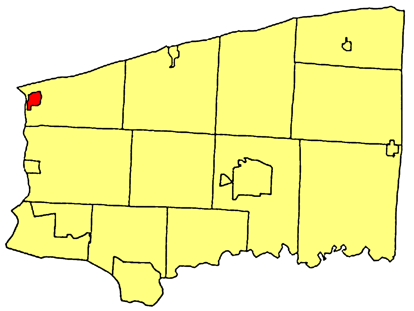 Location of the municipality in Niagara County, New York.